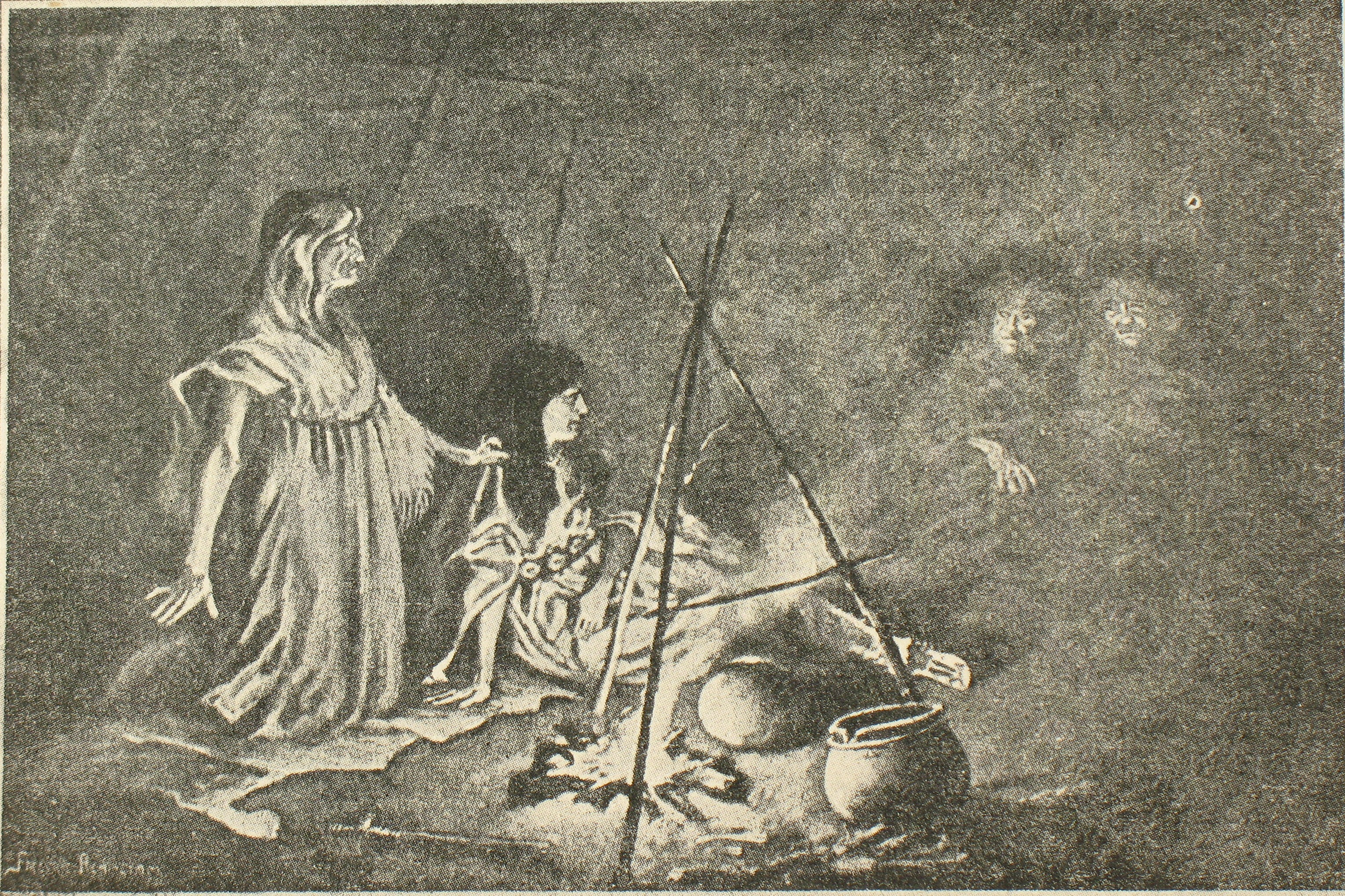 Henry Wadsworth Longfellow, The Song of Hiawatha, Moscow, 1931. Published by OGIZ. "Two ghosts" (on the right).